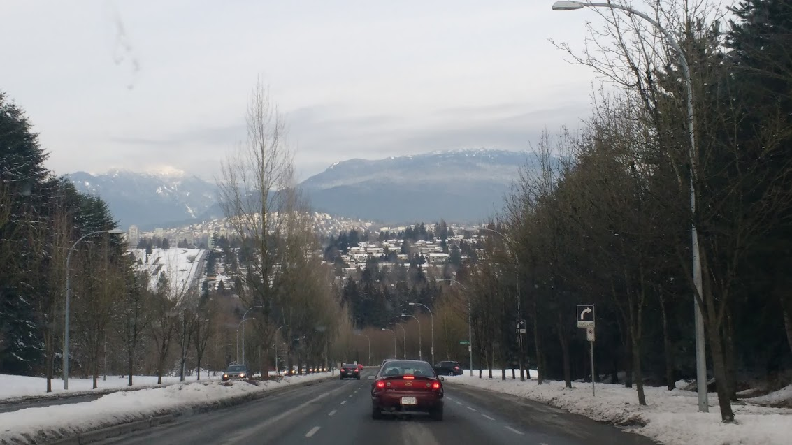 View of Burnaby Heights, and North Shore Mountains, from Deer Lake.